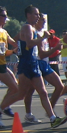 2013 IAAF World Championships in Moscow. 20 km walk men.